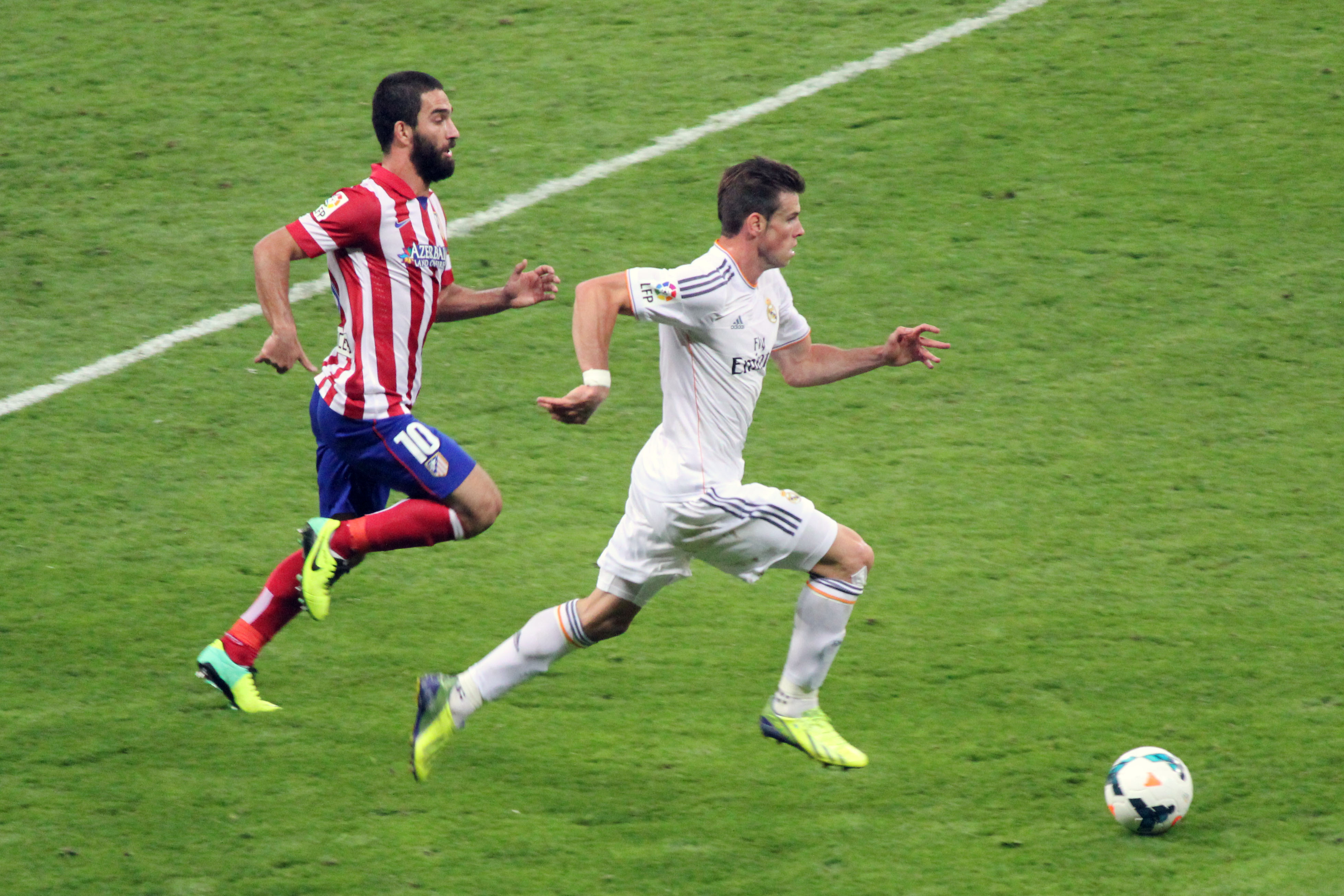 Real Madrid vs Atlético Madrid, 28 September 2013, Arda Turan and Gareth Bale.